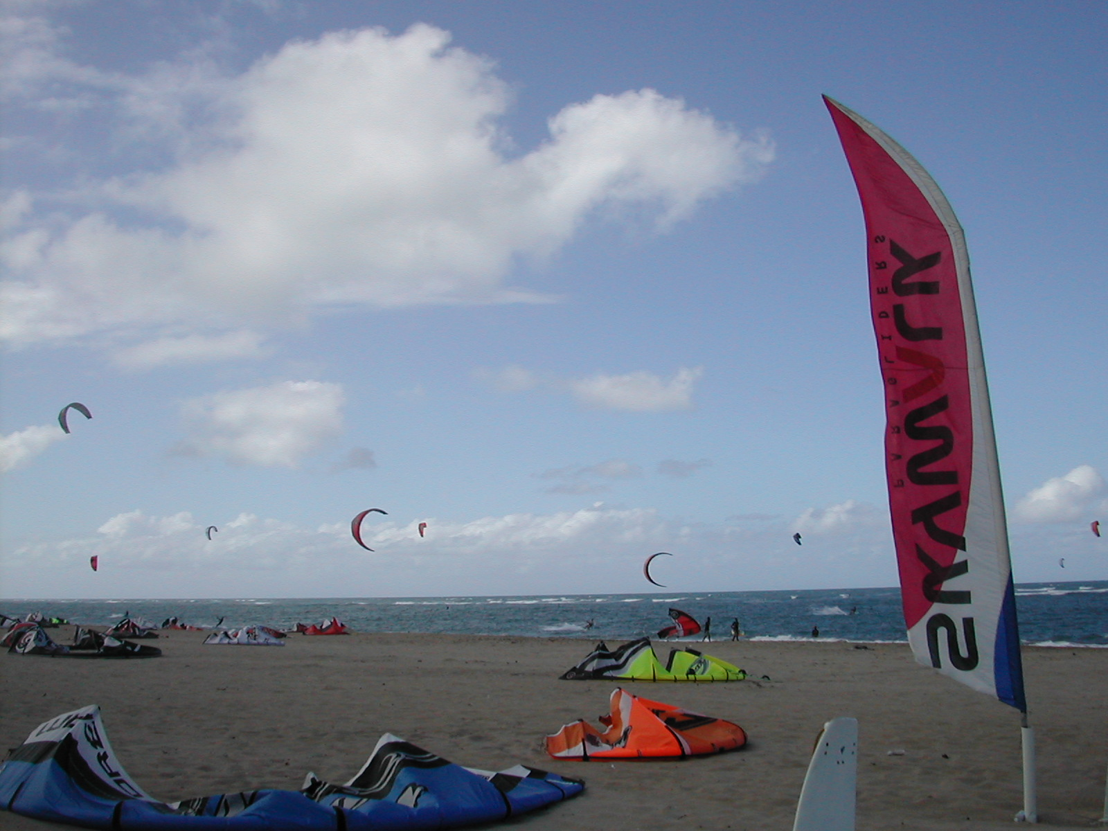 kitebeach at cabarete, DR